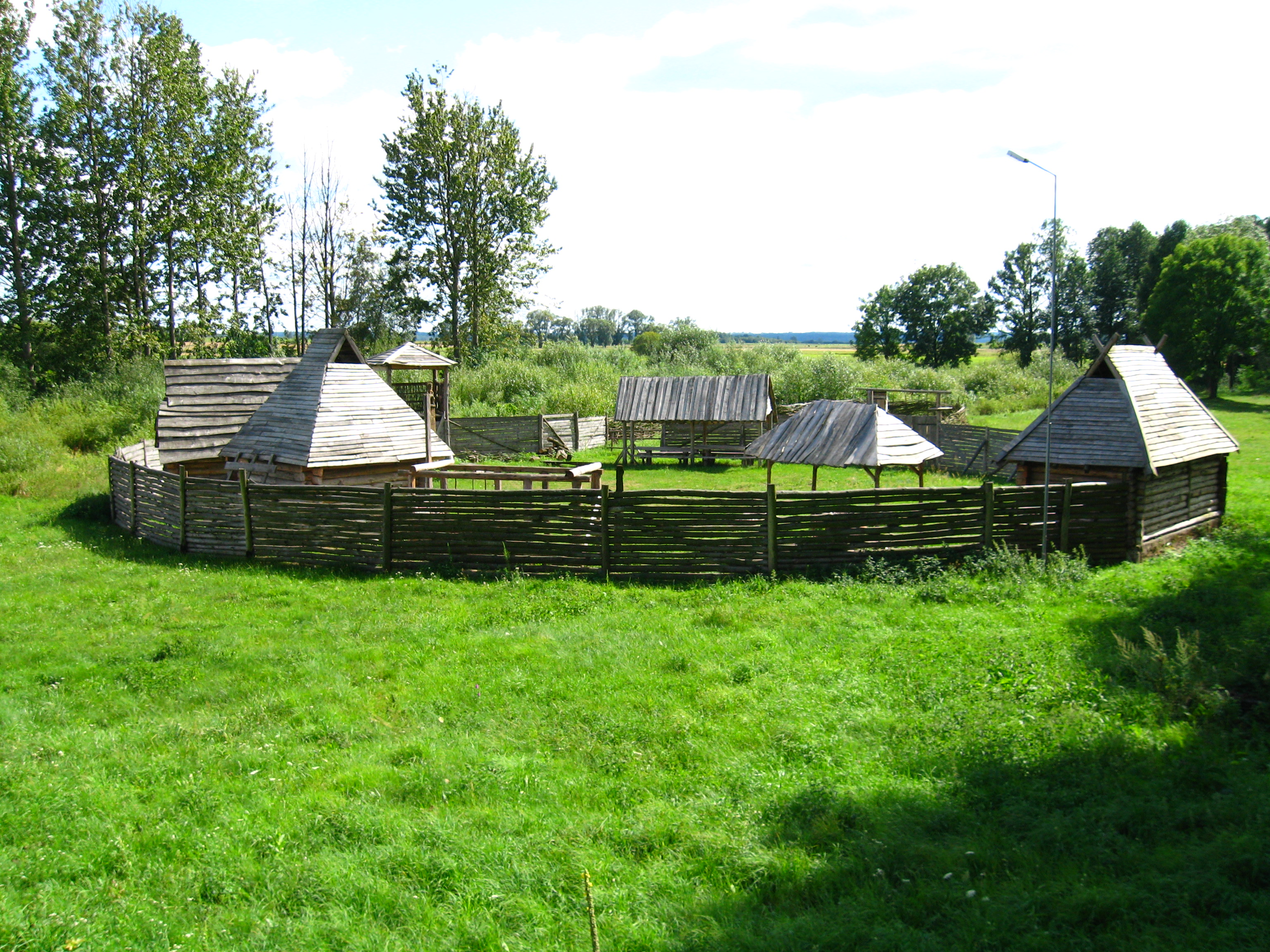 Early–medieval Slavonic settlement „Nawia”